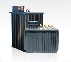 Voltage regulator